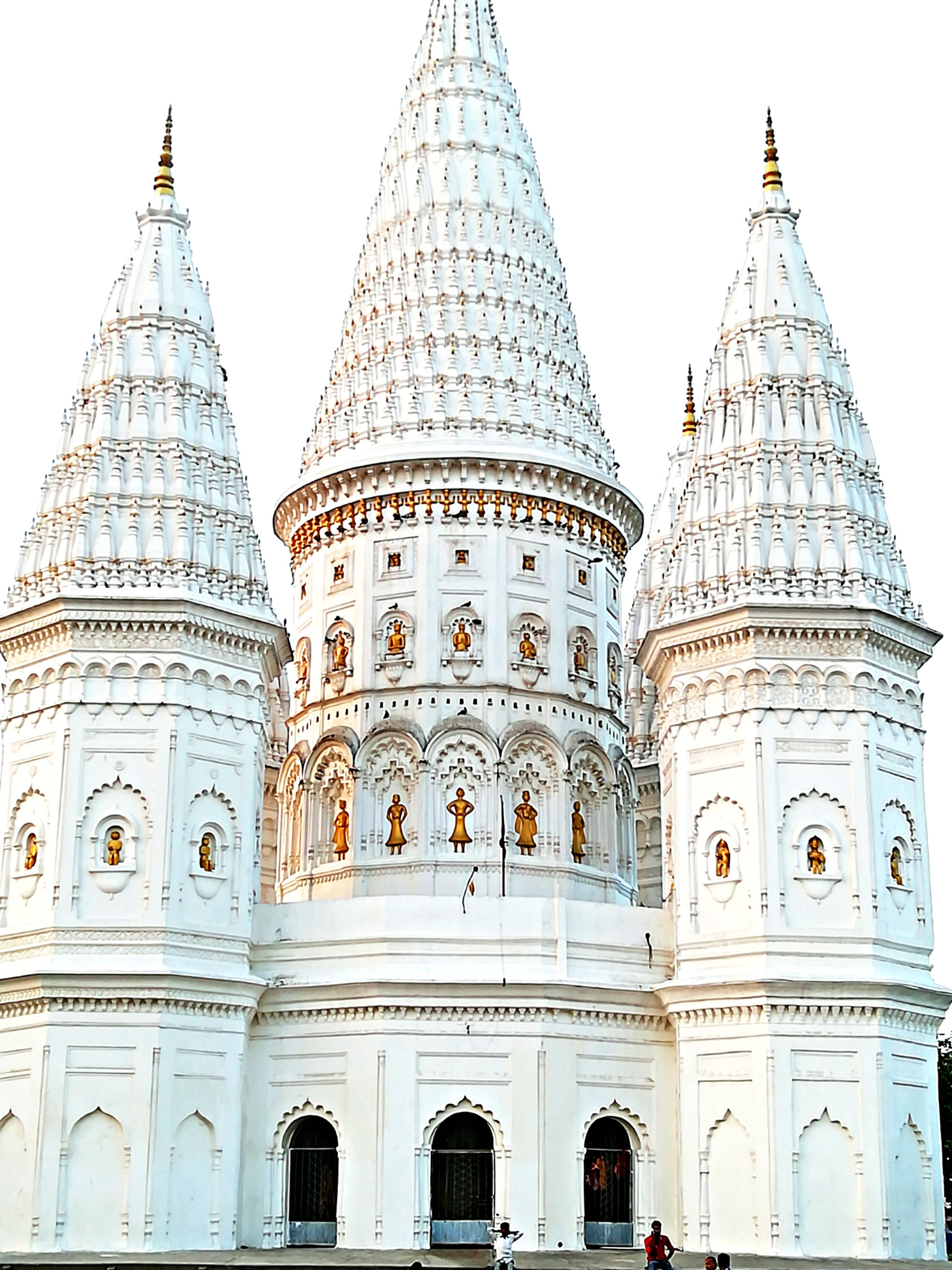 The most famous place of Ramnagar .it is here for a long time . The interior work of this temple is just awesome and the outer look of this temple is splendid.